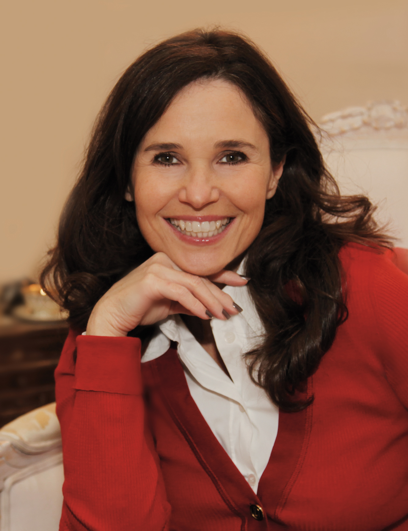 Judith Epstein